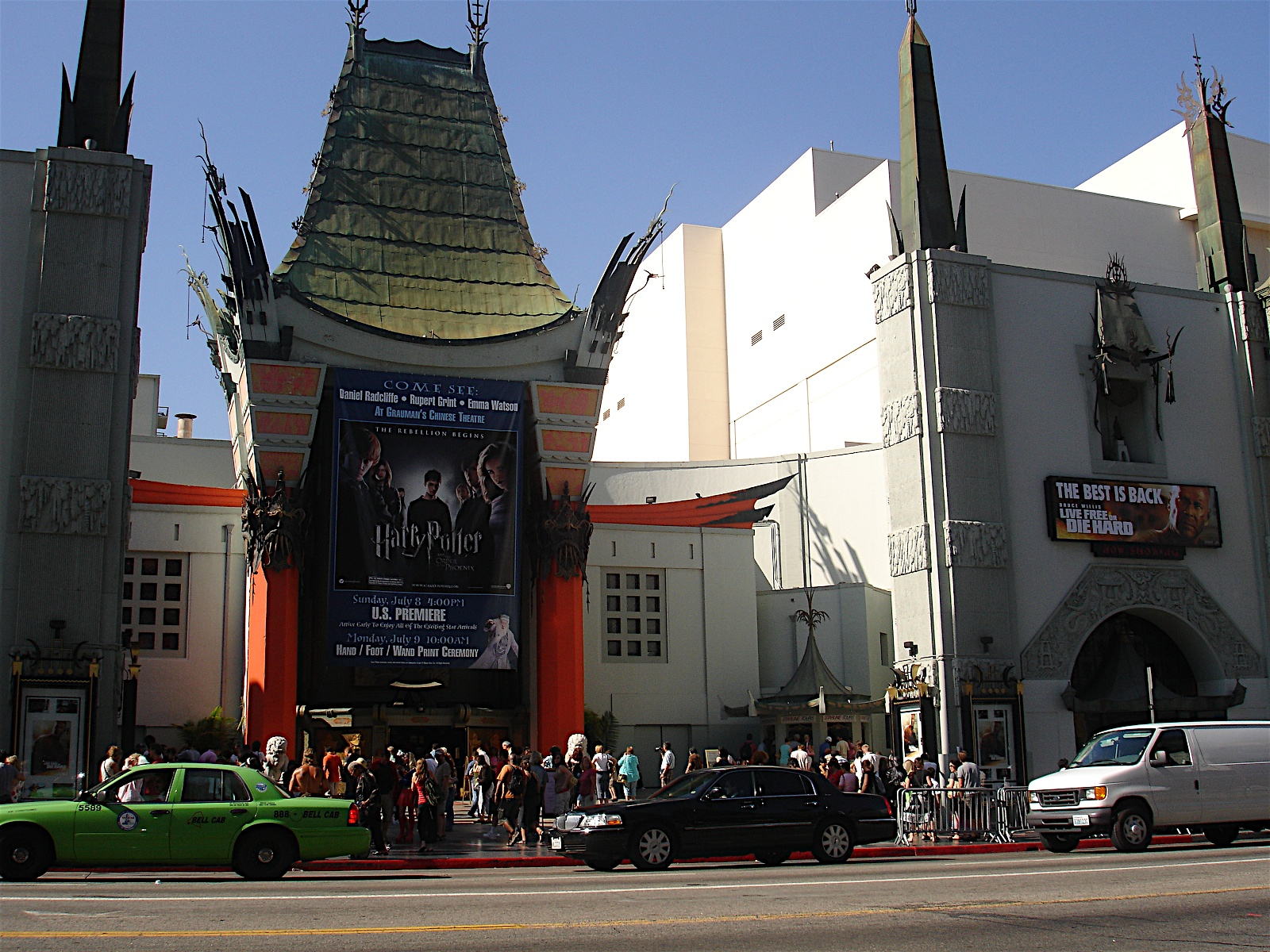 Grauman's Chinese Theatre